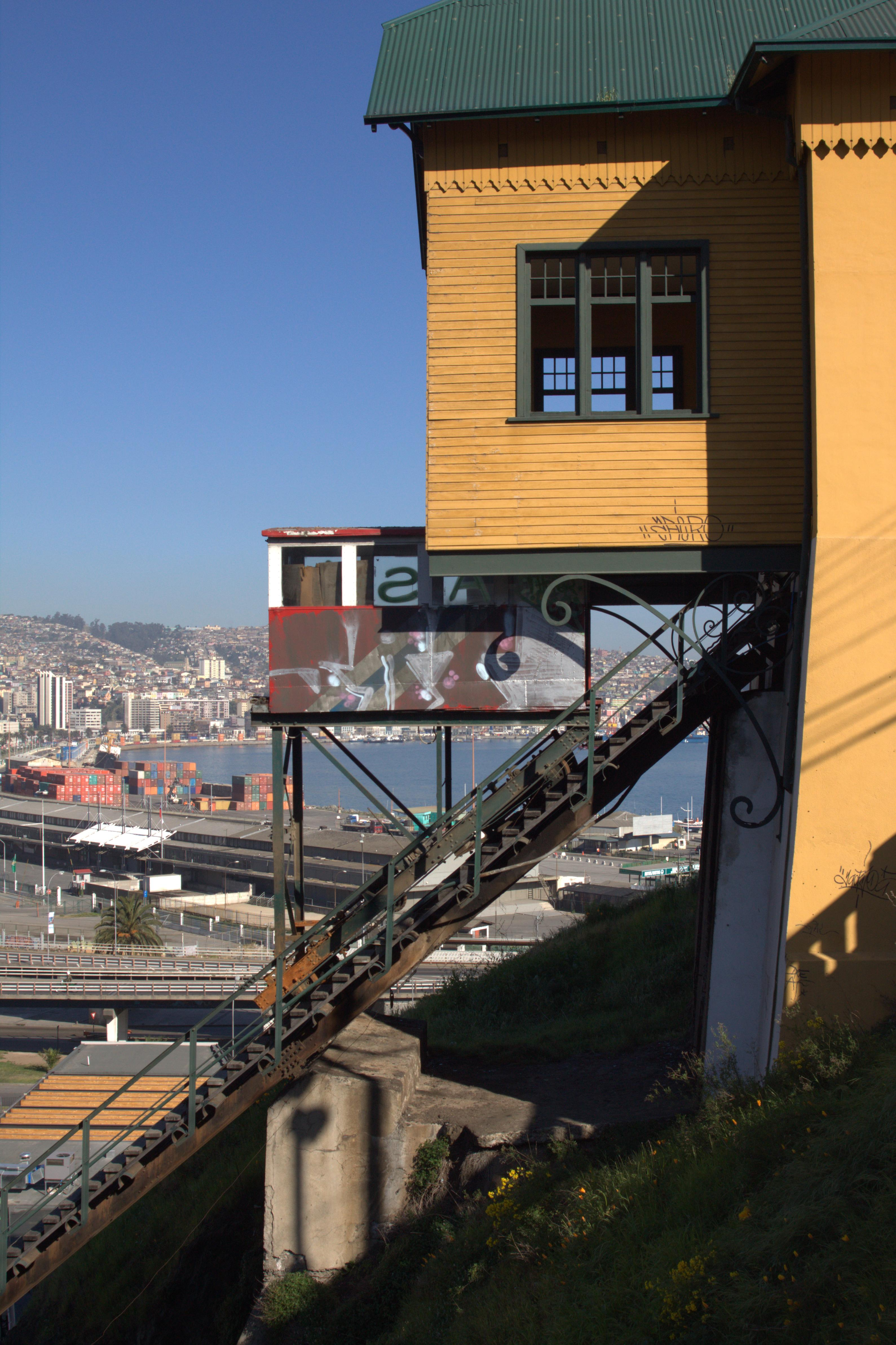 This is a photo of a national monument in Chile: 766